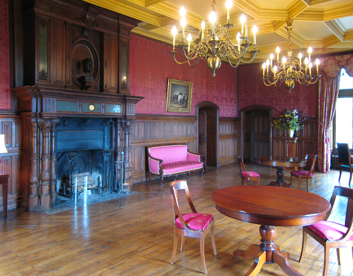 Castle Candé near the town of Monts in France, Interior